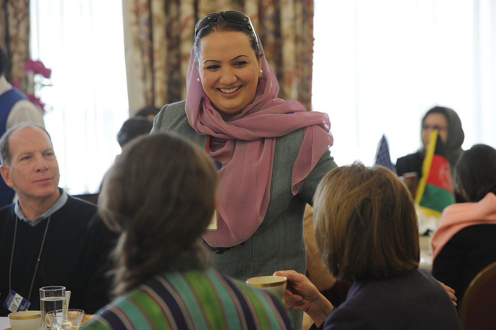 Afghan Parliamentarian Shukria Barakzai attends a breakfast with U.S. Congressmen and Afghan Parliamentarians hosted by U.S. Ambassador Karl W. Eikenberry at the U.S. Embassy in Kabul, Afghanistan on Sunday, March 20, 2011. (S.K. Vemmer/Department of State)